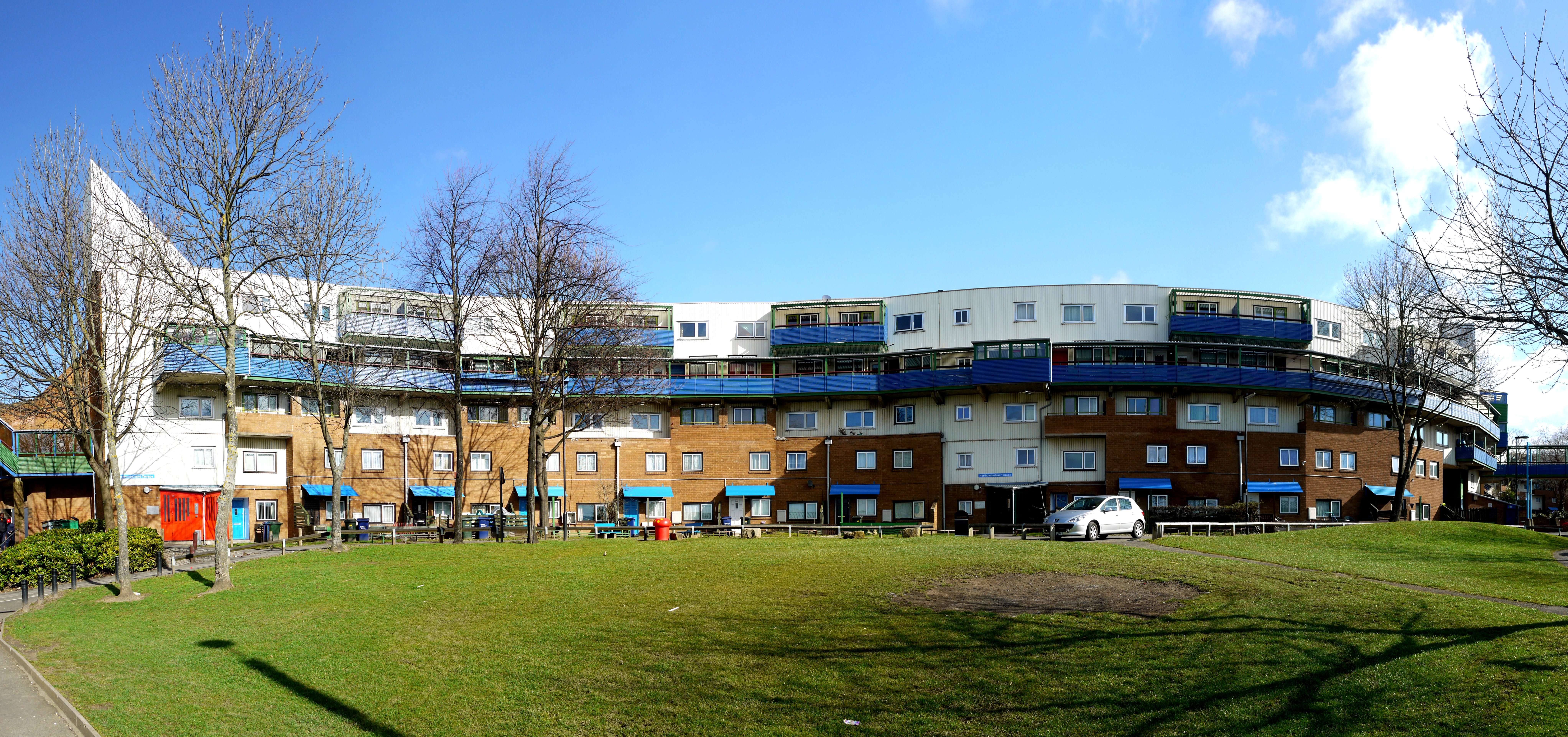 Behind the Byker Wall This is Northumberland Terrace, the most north-westerly part of Byker Wall in the sector called Dunn Terrace.